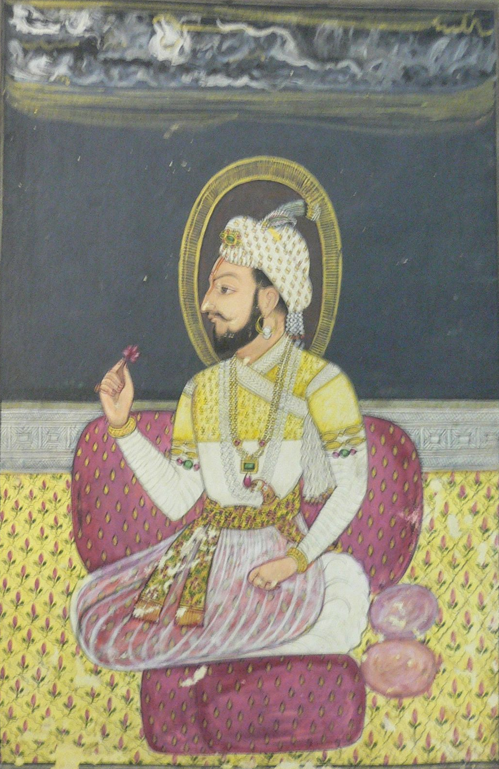 The inscription at the top reads Maharaja Sambhajiraje.